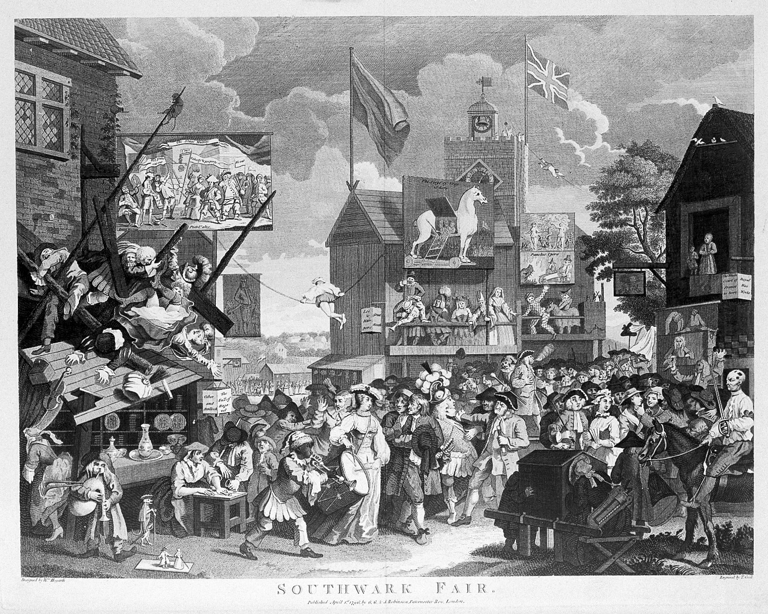 Southwark Fair, a renowned place of amusement, with a variety of theatrical establishments. Engraving by T. Cook after W. Hogarth. Iconographic Collections Keywords: cook, t.; hogarth, william {1697-1764}; SATIRE; William Hogarth; Thomas Cook